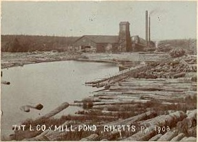 Mill pond and Trexler and Turrell Lumber Company sawmill in the lumber boomtown of Ricketts, Pennsylvania, USA (an unincorporated village in Sullivan and Wyoming Counties). Caption reads "T & T L CO Mill Pond Ricketts, PA 1903"